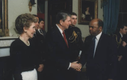 President Ronald Reagan, Nancy Reagan, John Lewis, John McCain, John Breaux, Kweisi Mfume, Ruth Sims, and Elton Gallegly, (Not in all Photos) (1-35) Dinner for newly elected members of the 100th Congress